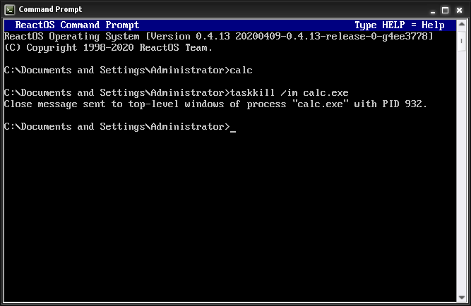 taskkill command on ReactOS-0.4.13